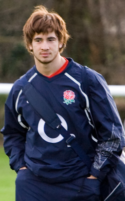 Photograph of England rugby player Danny Cipriani after a training session at the University of Bath, pre-2008 Six Nations.